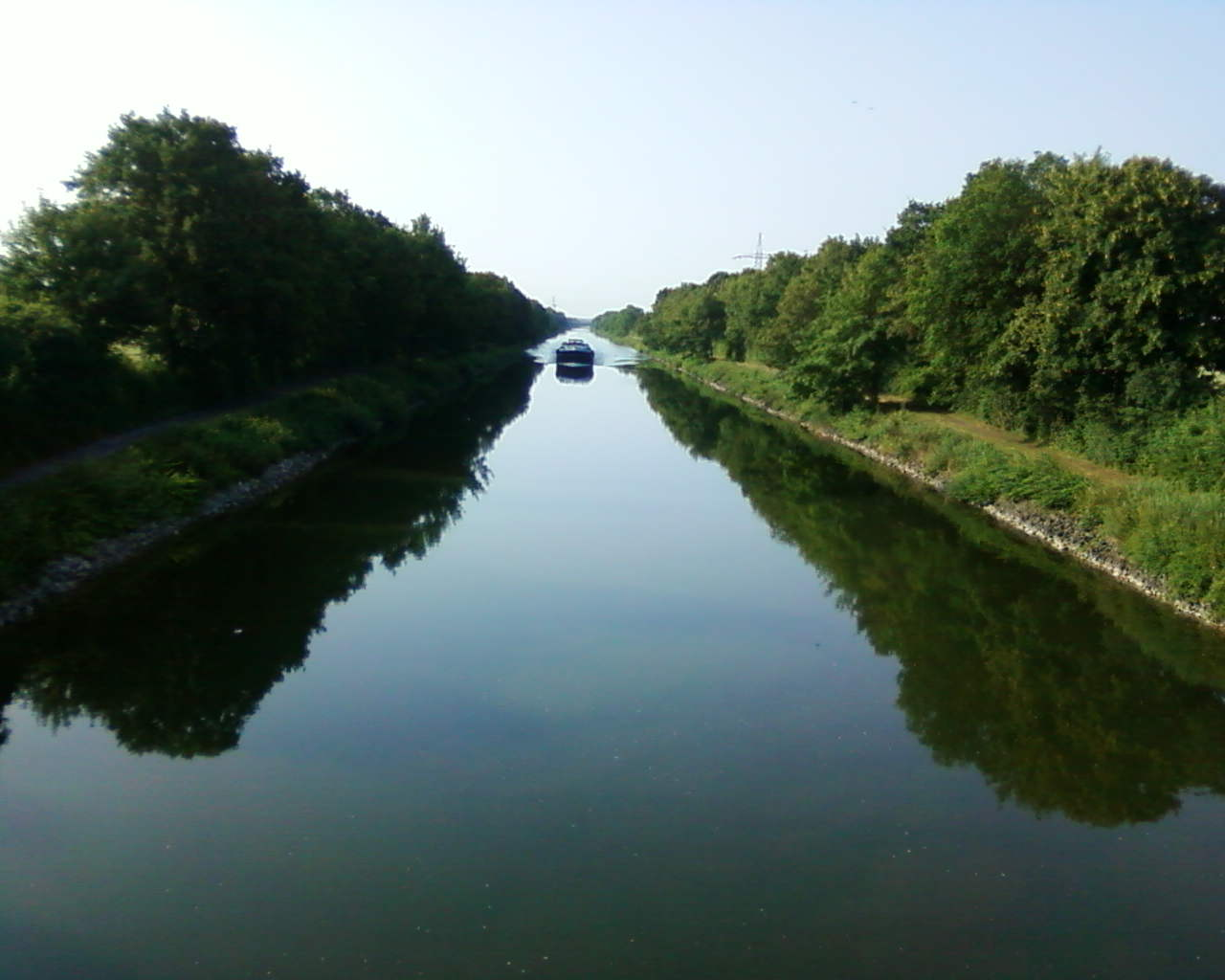 Branch canal Salzgitter near Denstorf and Sonnenberg, municipality of Vechelde in Lower Saxony, Germany